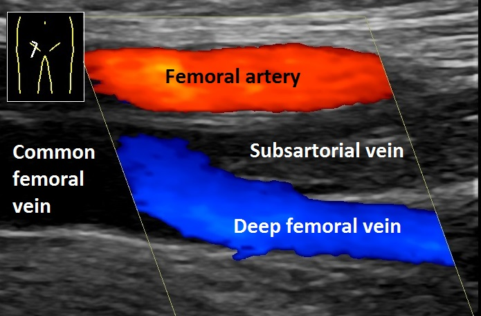 Doppler ultrasonography of the right leg of a 65 year old man with a swollen right leg. It shows deep vein thrombosis in the subsartorial vein. There is absence of blood flow as well as hyperechogenicity in the thrombosed vessel, as compared to the deep femoral vein and the femoral artery.